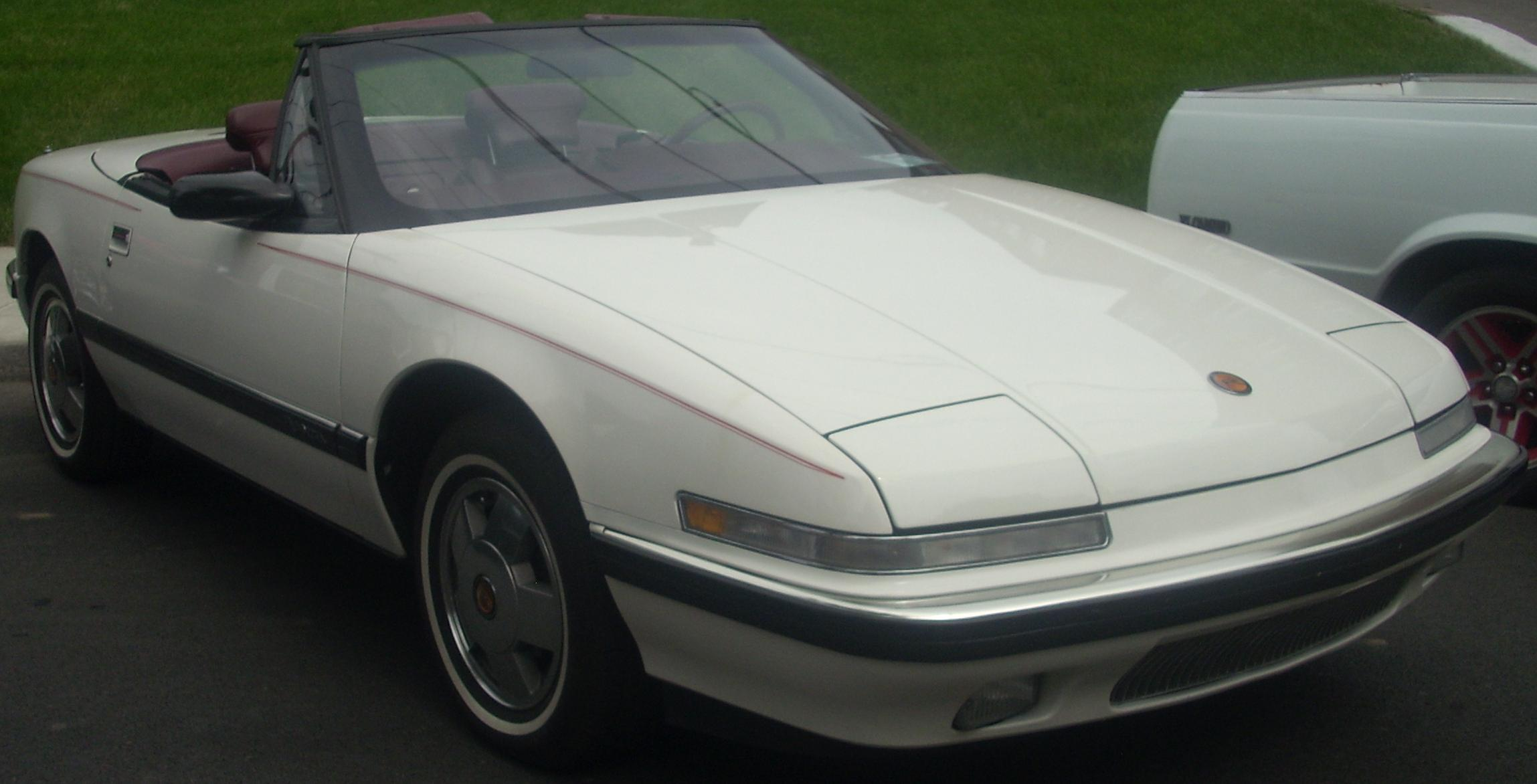 1990 Buick Reatta photographed in Ste. Anne De Bellevue, Quebec, Canada at Cruisin' At The Boardwalk 2010.